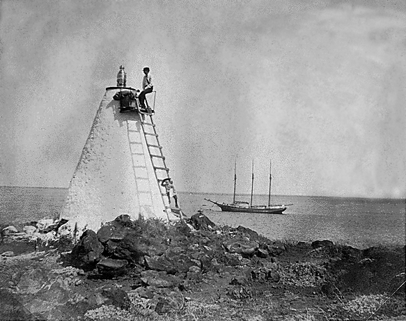 The original Mahukona lighthouse, built in 1889. A new one was built in 1915. Big island of Hawaiʻi.